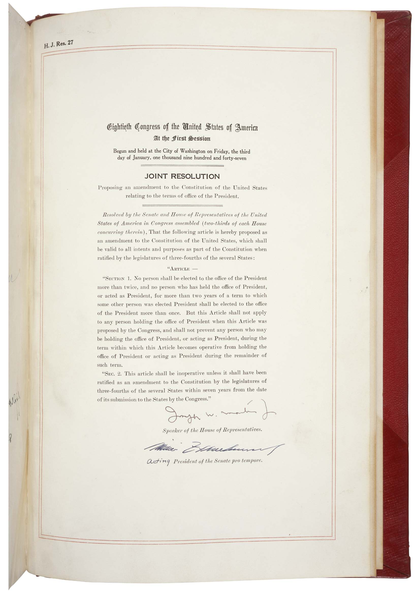 Amendment XXII in the National Archives.